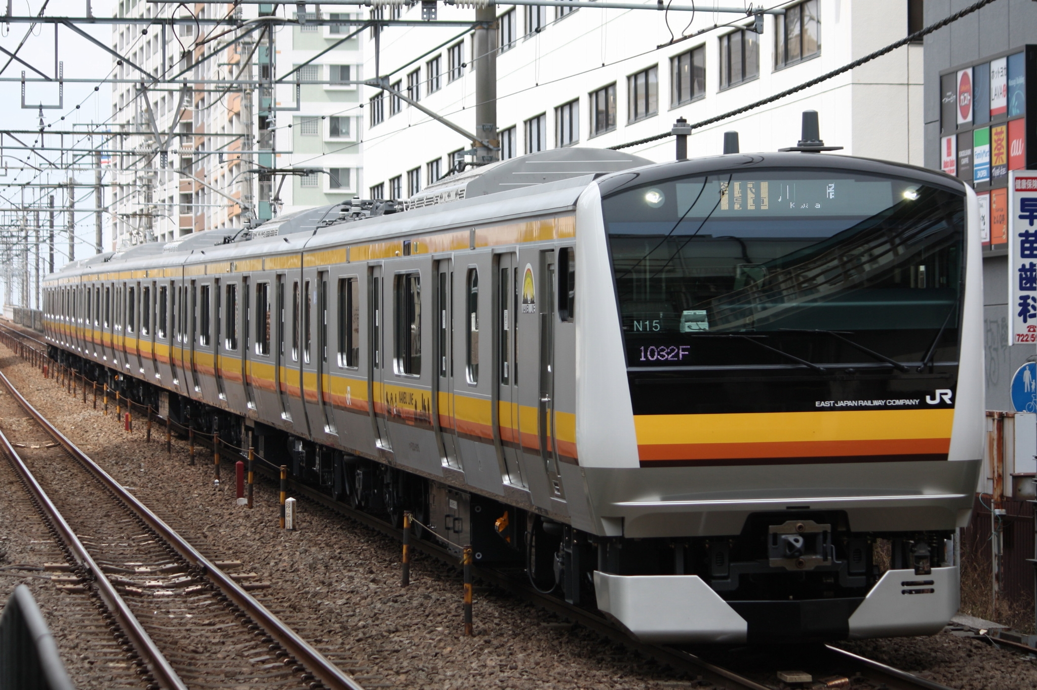 JR East E233-8000 series EMU set N15 approaching Musashi-Kosugi Station on a Nambu Line all-stations "Local" service for Kawasaki